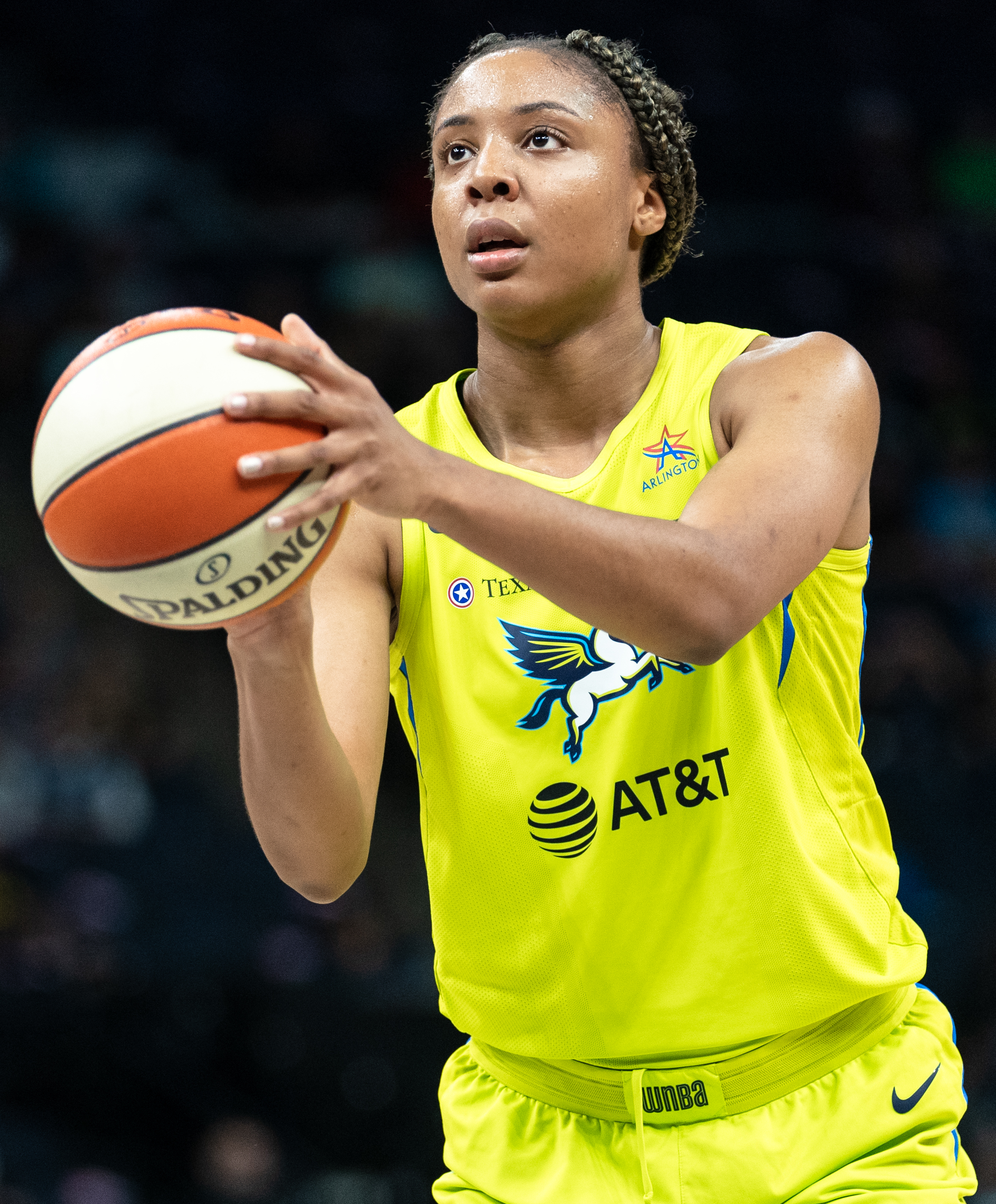 Dallas Wings player Kristine Anigwe in a game against the Minnesota Lynx